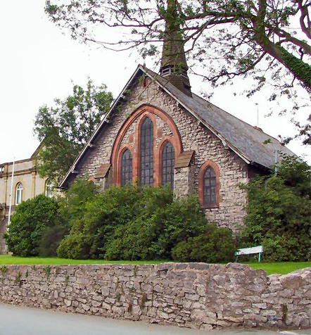 Lluesty Chapel Constructed in 1884, the chapel is in the grounds of the Lluesty Hospital(now closed) behind and to the left of the chapel.